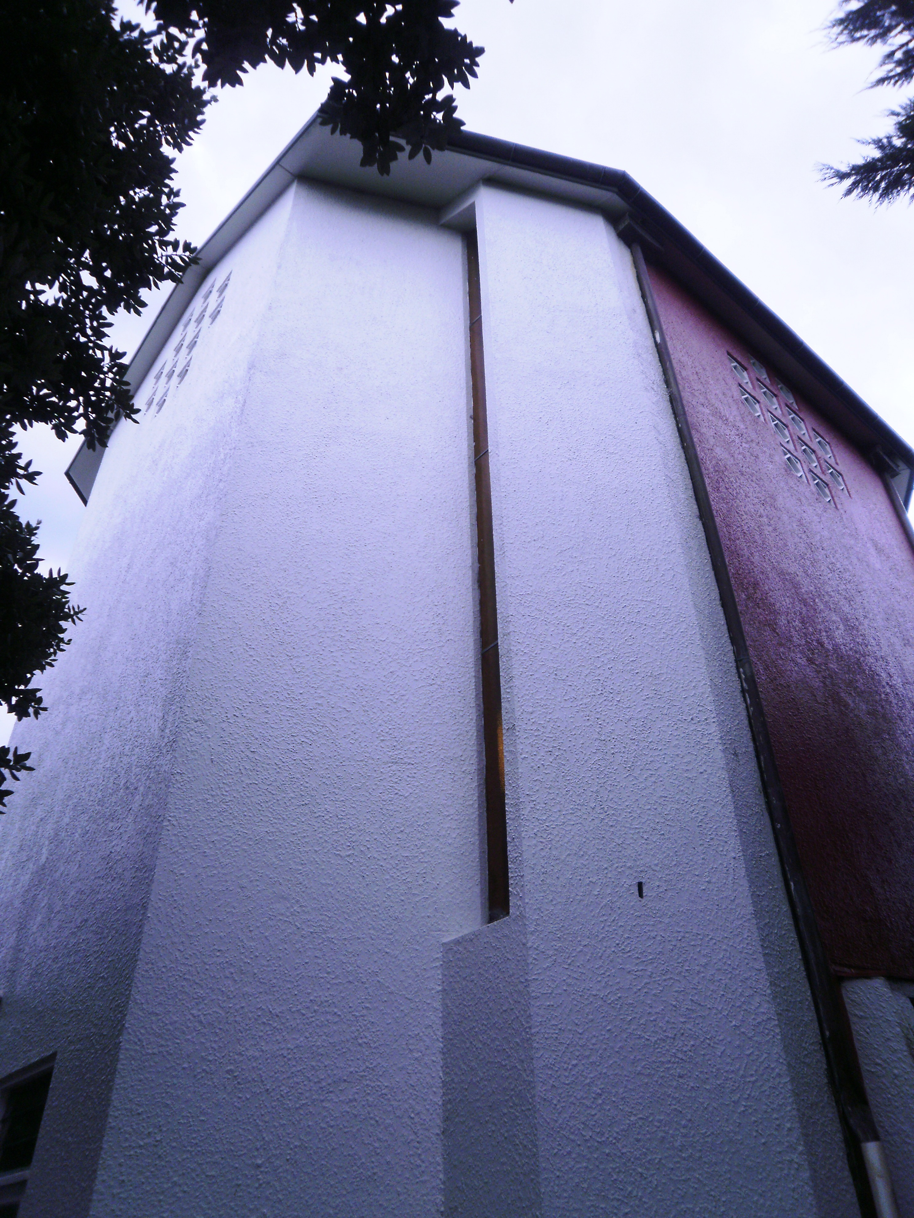 St. Martins at St Chads Church, Sandringham, Auckland, New Zealand. Looking up at the Richard Toy designed two-storey concrete extension.